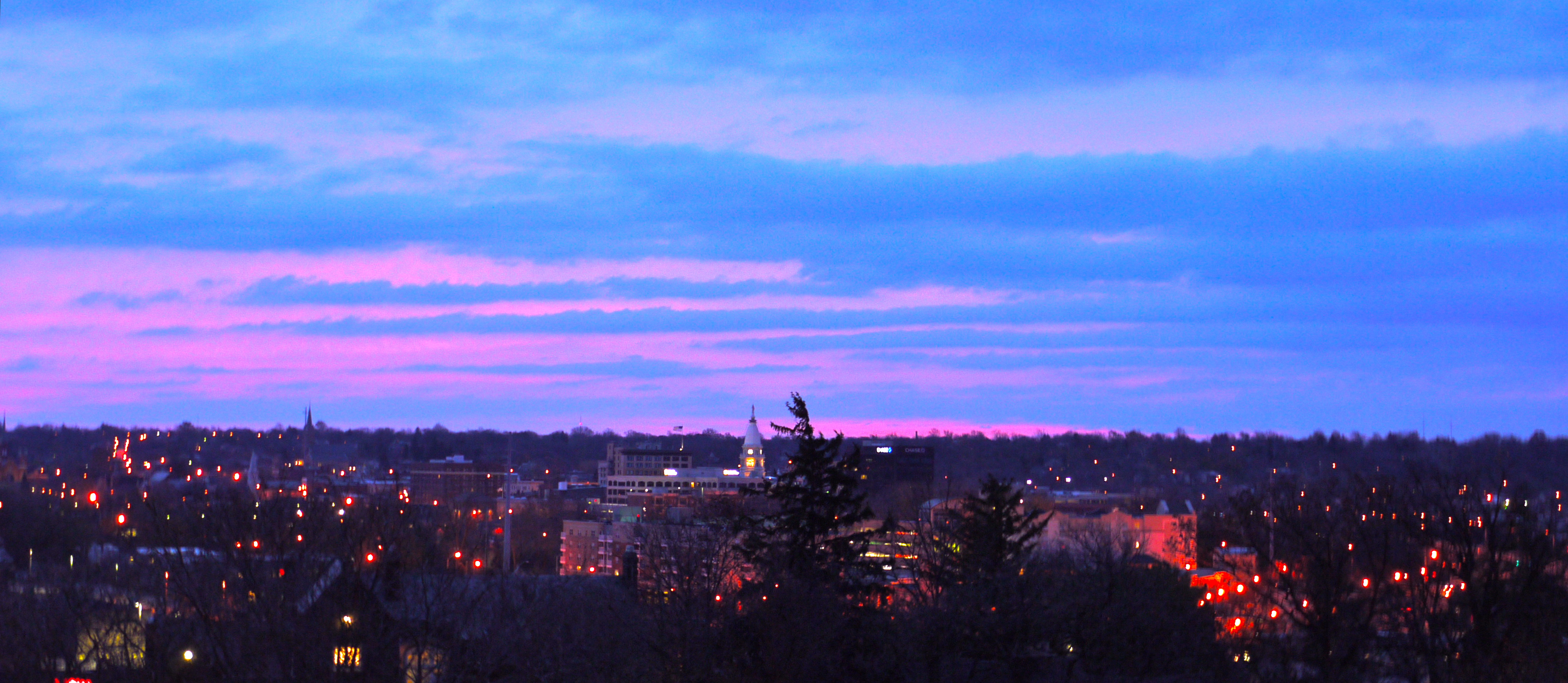 sunrise